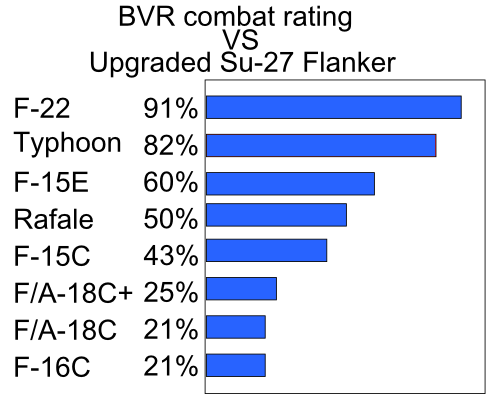 (Concise version of BVR_combat_rating_against_Upgraded_Su-27_Flanker_(Full).PNG) This is Eurofighter's marketing data, so this is studied and calcutated under their best environment. If those jet-fighters battle against upgraded Su-27 Flanker (comparable to an Su-35 Super Flanker and its equivalents) in close range, how percentages the jet can win the battle. 100% means all time can win the dog-fight against Su-27+. This numbers are calculated from all performances from the major systems on each jet-fighter; avionics, structure(incl. RCS data), engine(incl. fuel usage), defences and man-machine interfaces. This is Eurofighter's marketing data, so this is studied and calcutated under their best environment.